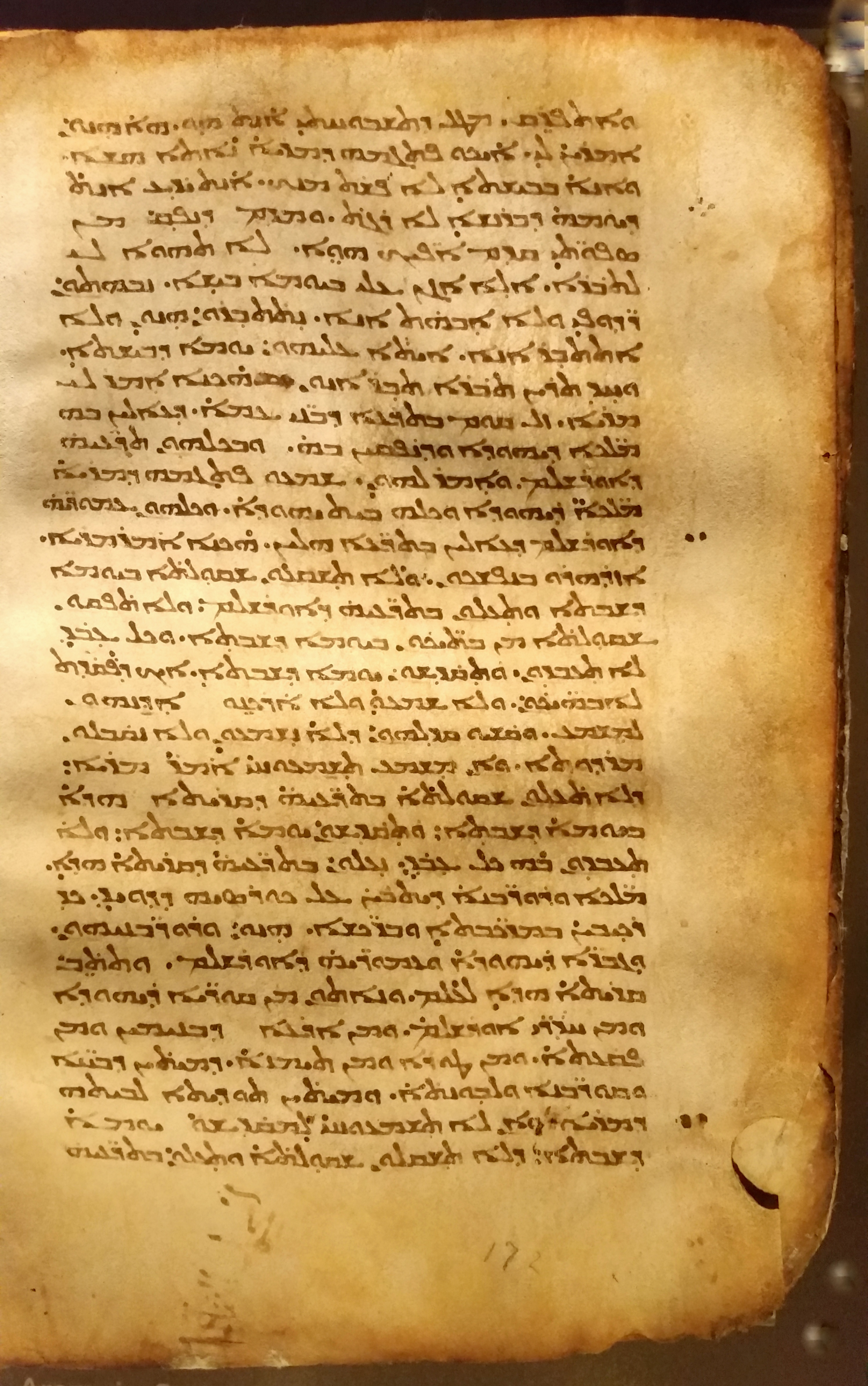 Manuscript on parchment of the book is Peshitta: Syrian Aramaic translation of the Bible. May Edessa Greece, 9th century. Displayed in the National Library at Givat Ram, Jerusalem